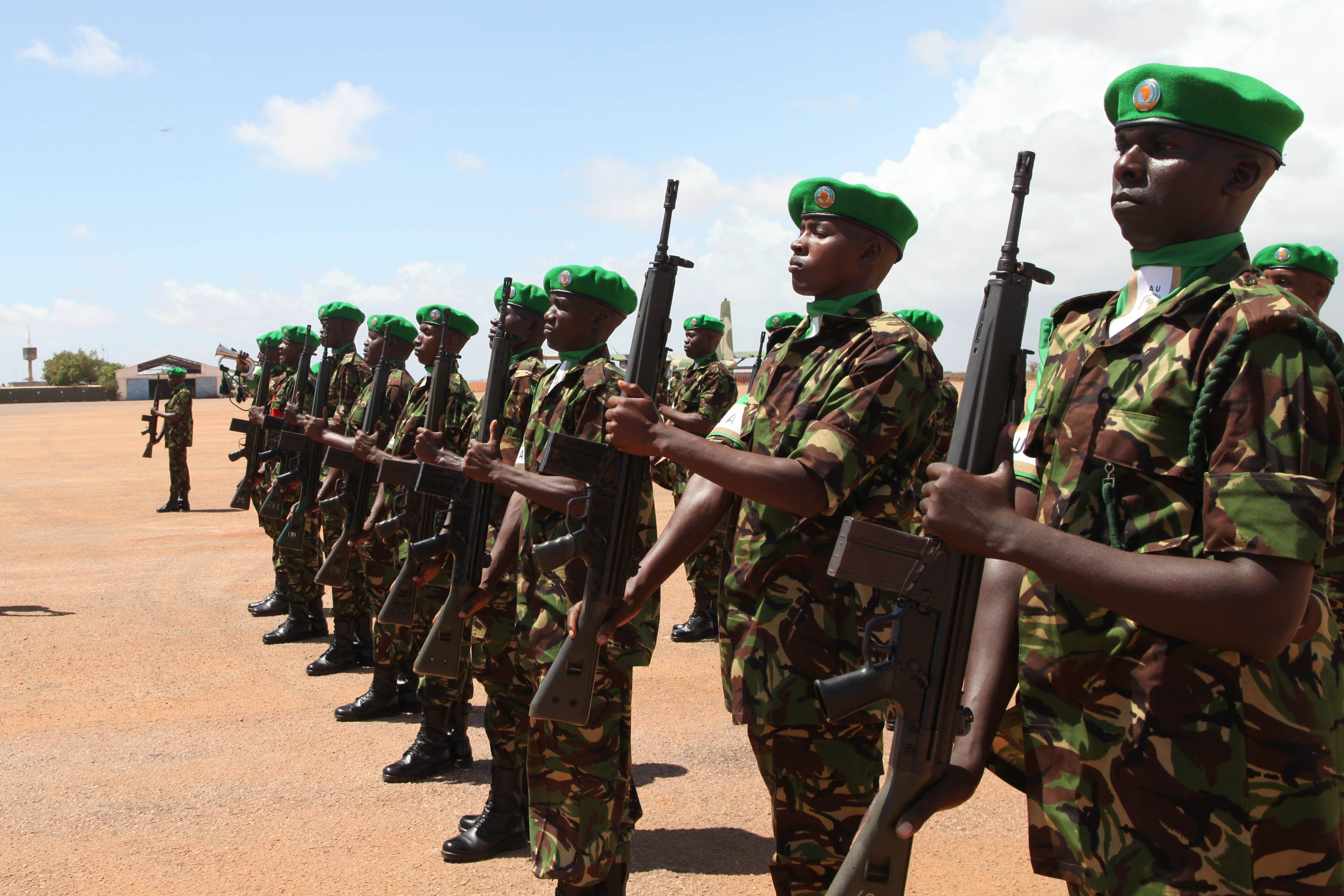 Kenyan soldiers serving under the African Union Mission in Somalia (AMISOM) in a parade during the arrival of Kenya's Chief of Defense Forces General, Samson Mwathethe in Kismayu, Somalia on December 25, 2015. AMISOM Photo / Awil Abukar Personality rights warningAlthough this work is freely licensed or in the public domain, the person(s) shown may have rights that legally restrict certain re-uses unless those depicted consent to such uses. In these cases, a model release or other evidence of consent could protect you from infringement claims.